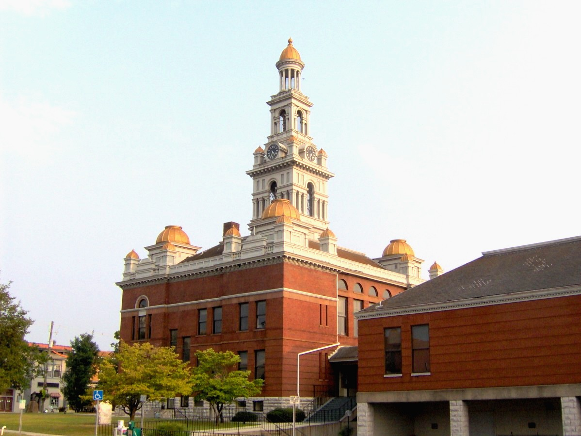 The Sevier County Courthouse in Sevier County, Tennessee. The courthouse is Sevier's 5th, built in 1896. The building was designed by the McDonald Brothers of Louisville, Kentucky. Local brickmason Isaac Dockery was responsible for much of the brickwork.